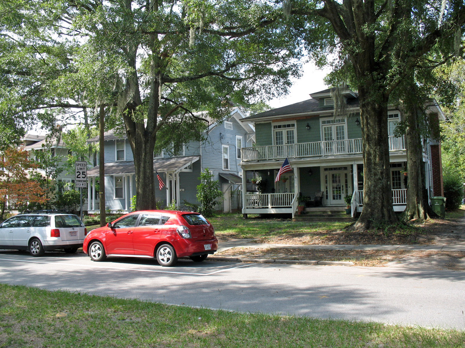 National Register of Historic Places listings in New Hanover County, North Carolina. Sunset Park Historic District, roughly bounded by Carolina Beach Rd., Southern Blvd., Burnett Blvd., and Sunset Ave., Wilmington, NC. Photographed September 20, 2009 from the Northern Blvd median near the intersection with Carolina Beach Rd.